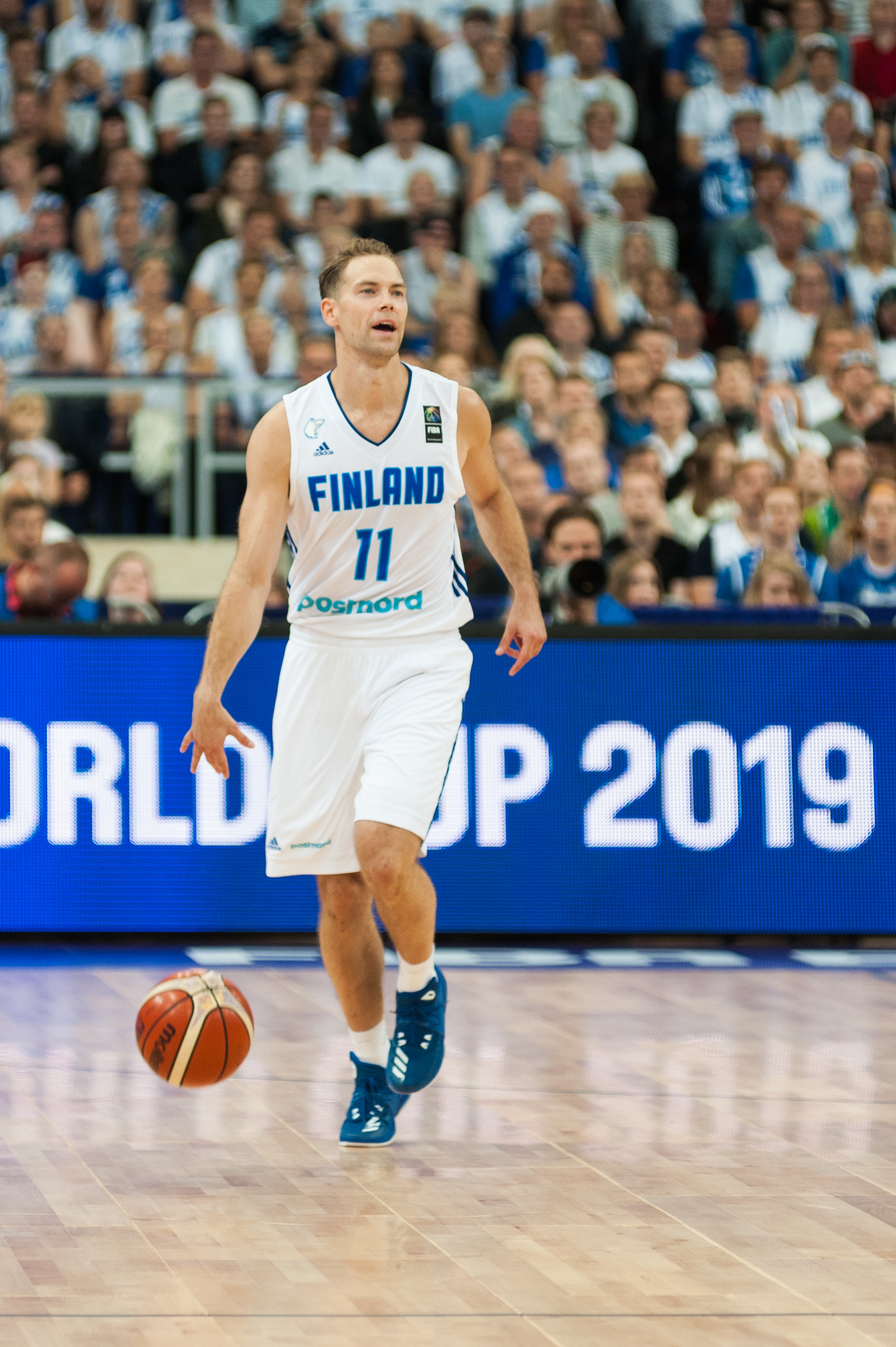 EuroBasket 2017 Group A game between Finland and Slovenia at Hartwall Arena in Helsinki, Finland.